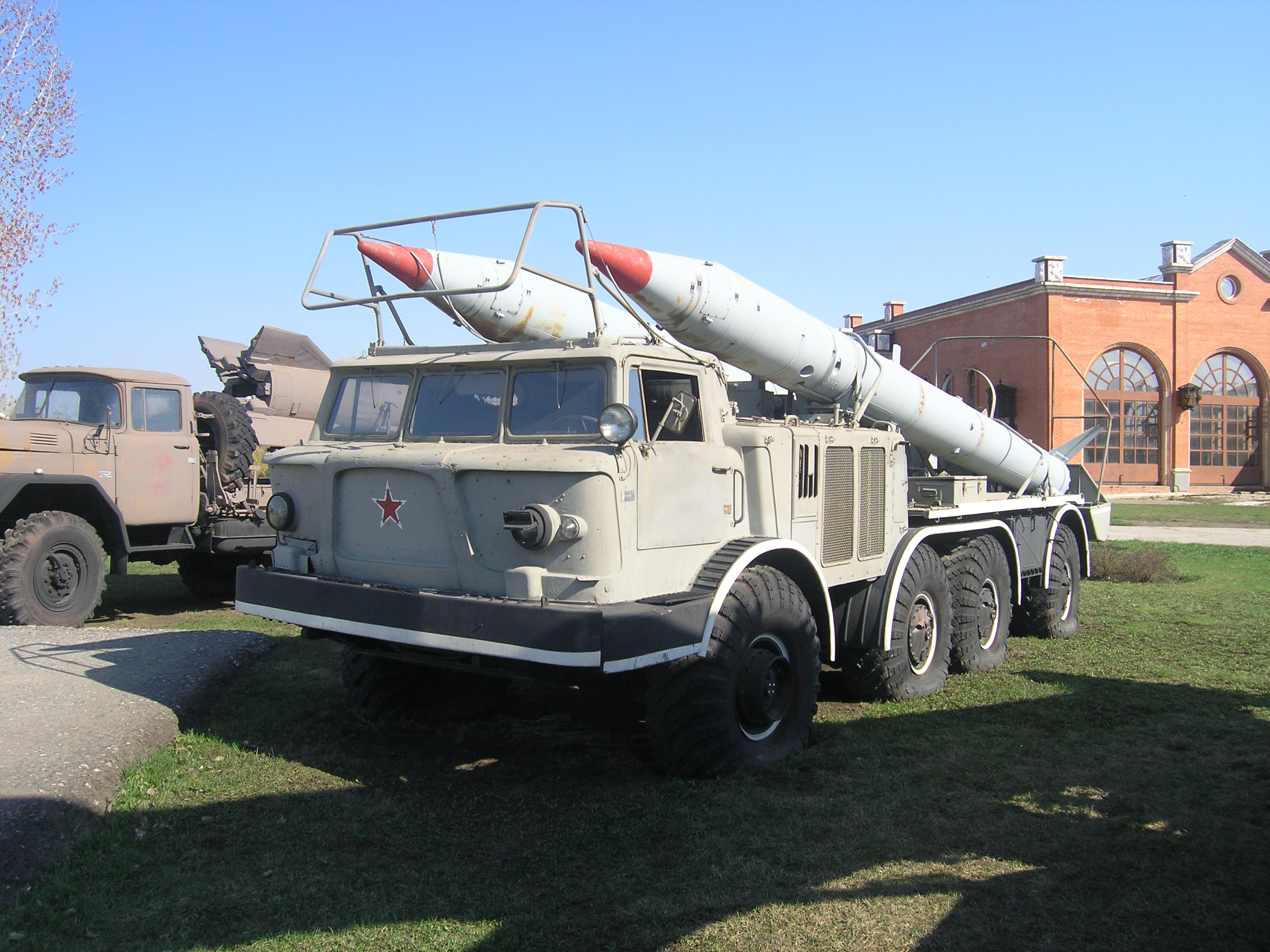 9T29 Transporter with 9M21 missiles of the 9K52 missile complex «Luna-M»